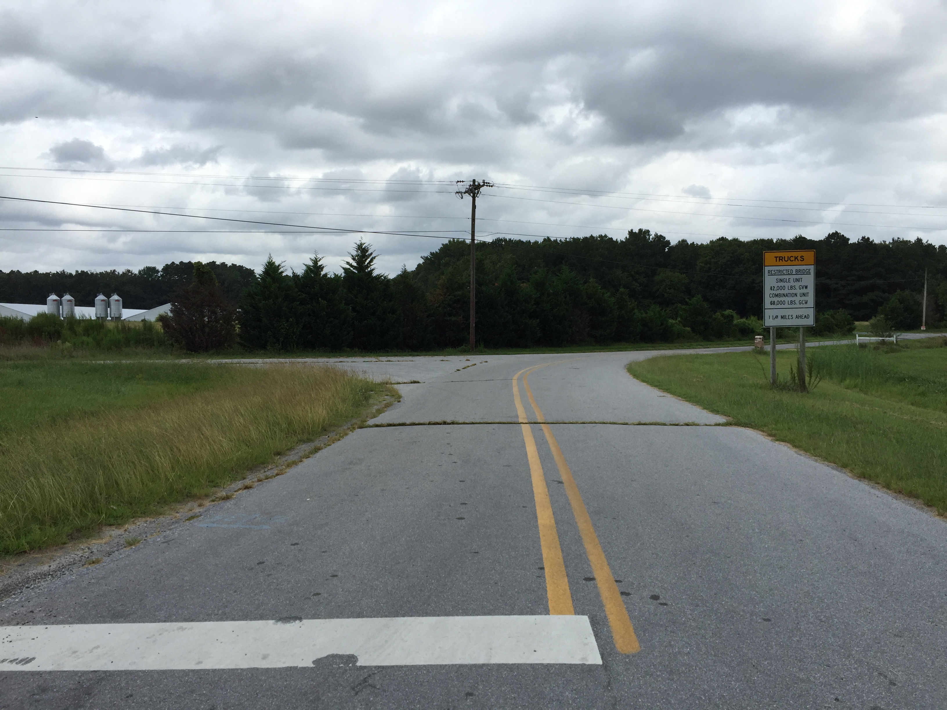 View west along Maryland State Route 703 (Klej Grange Road) at Maryland State Route 366 (Stockton Road) in Goodwill, Worcester County, Maryland